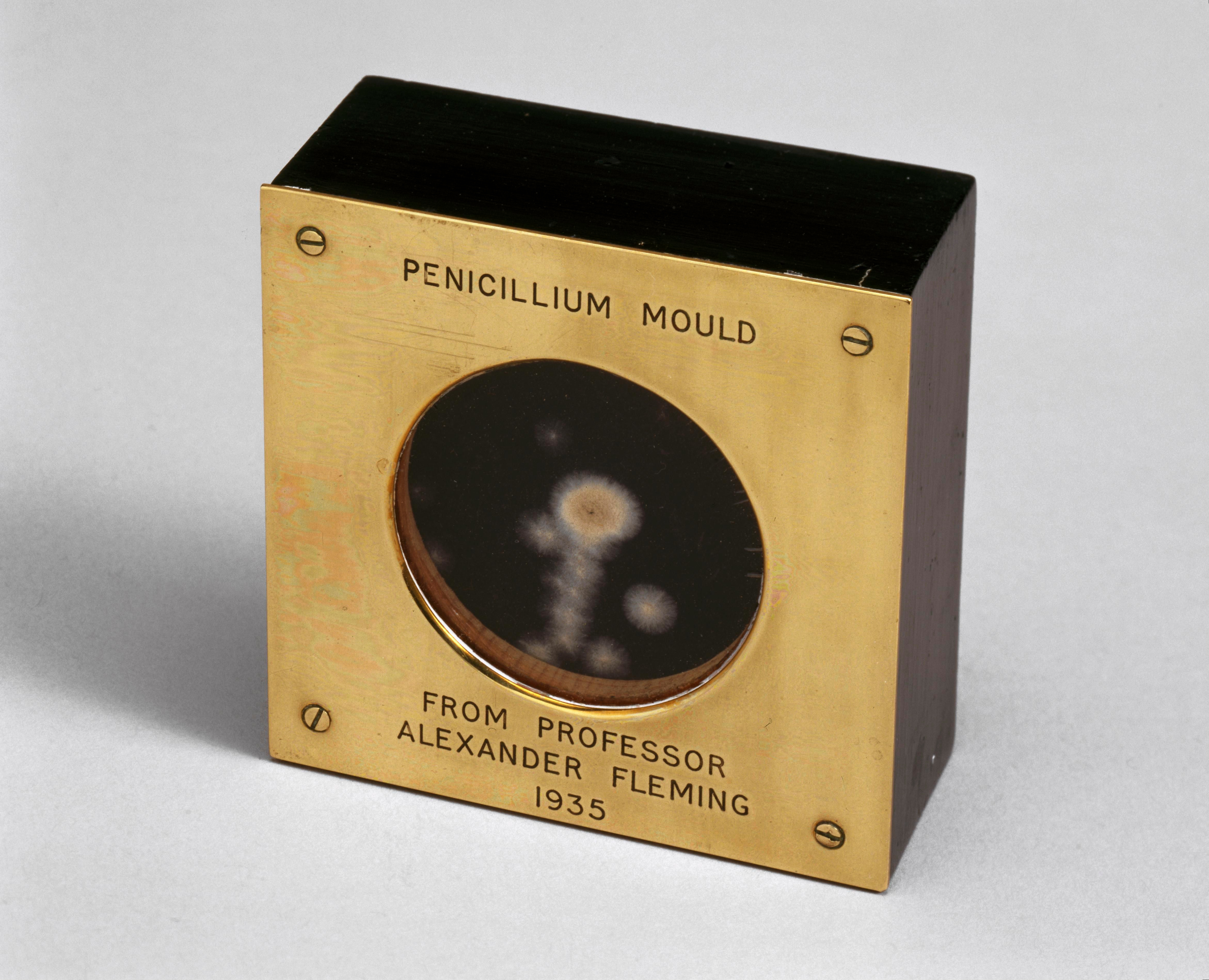 Sample of penicillin mould presented by Alexander Fleming to Douglas Macleod, 1935. Front three-quarter view, grey background.